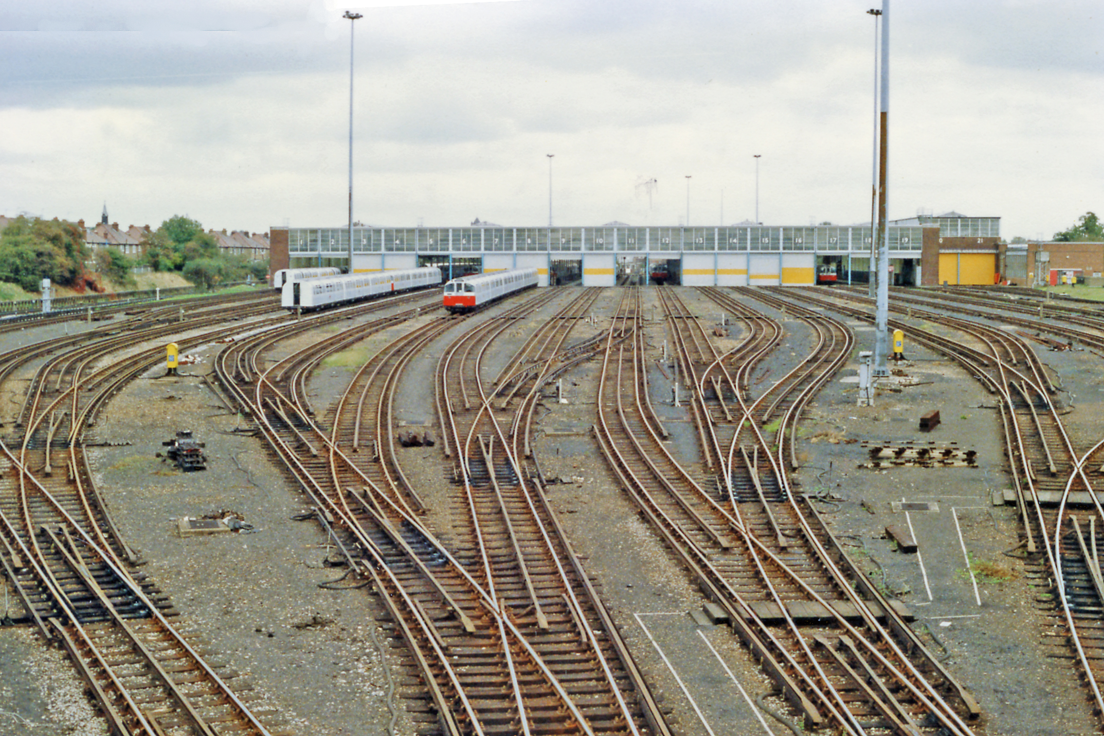 Northfields Depot, London Underground. View NE from the A3002 Boston Manor Road, with the Piccadilly (formerly District) Line from Heathrow passing on the left, towards Acton Town and Central London.